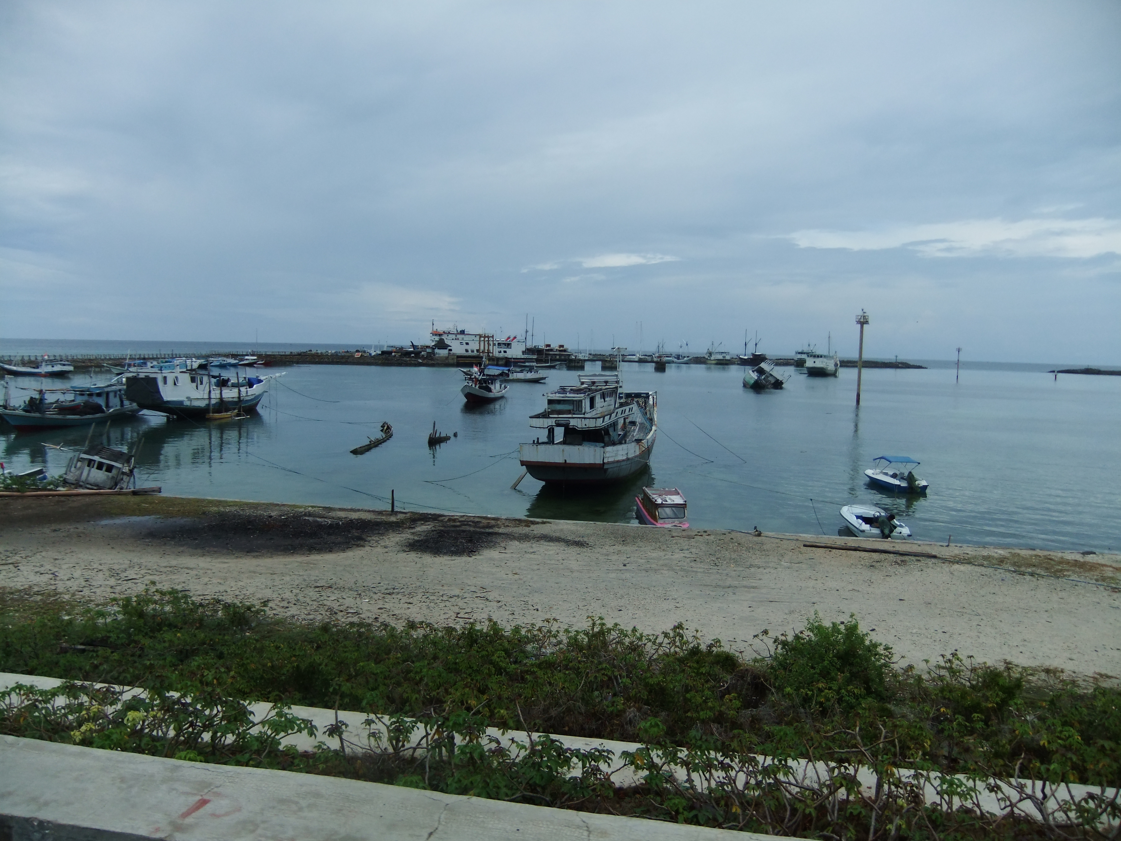 Port of Bira Bulukumba, South Sulawesi